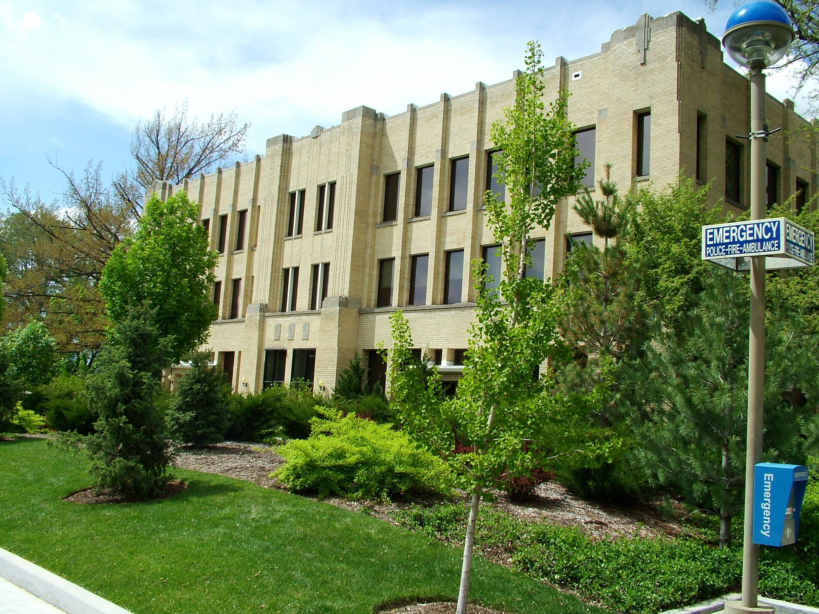 The George H. Brimhall Building is home to the BYU College of Fine Arts and Communications' Department of Communications. It is located on Brigham Young University's Provo, Utah, campus.